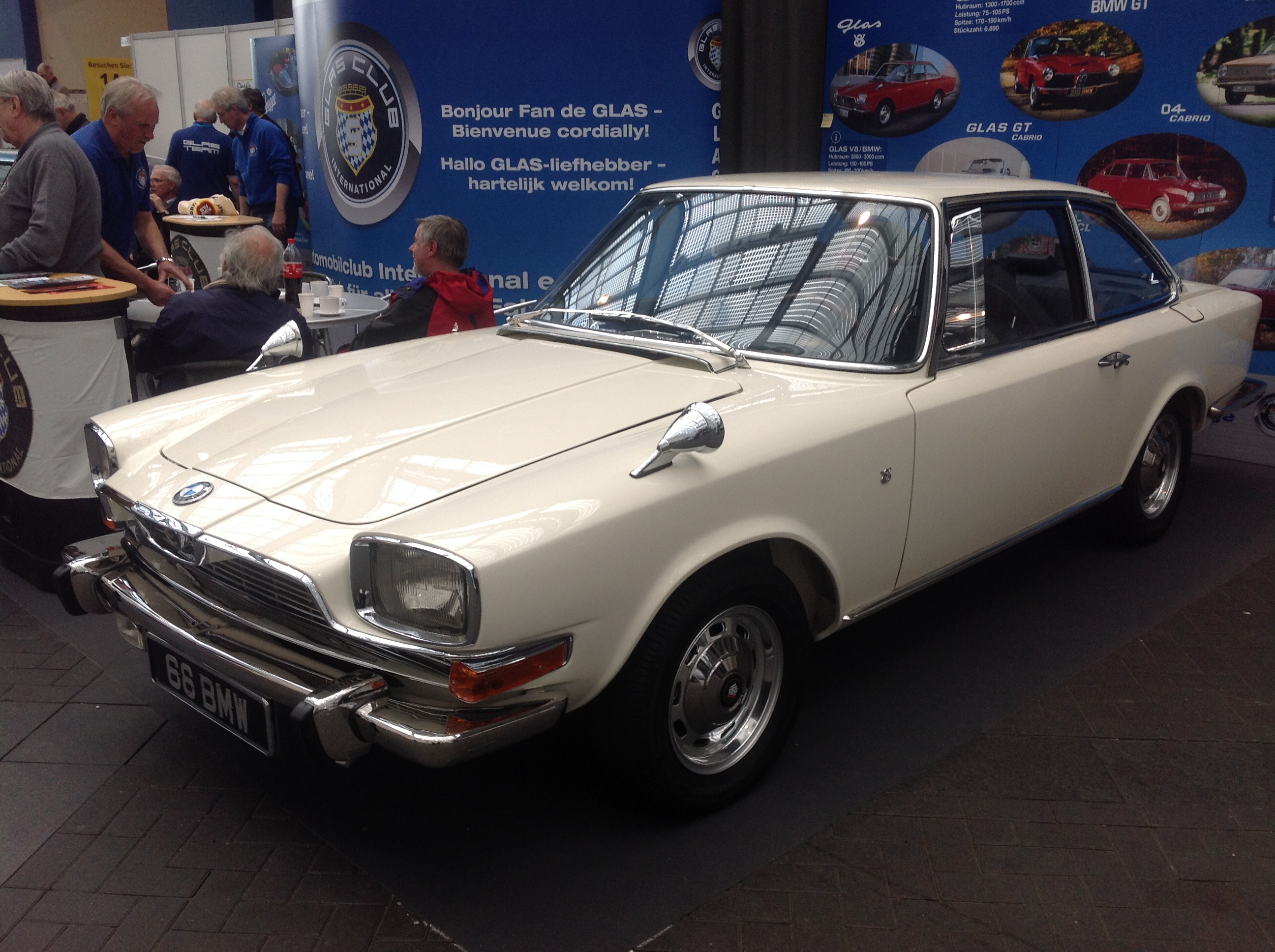 1966 BMW Glas 3000 GT - a V8 coupé with Frua style.